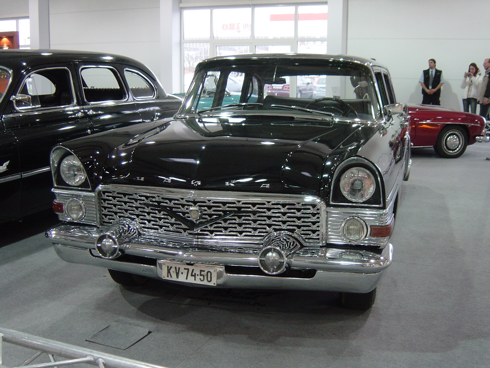 GAZ-13 Chaika at the Oldtimer Expo 2007.